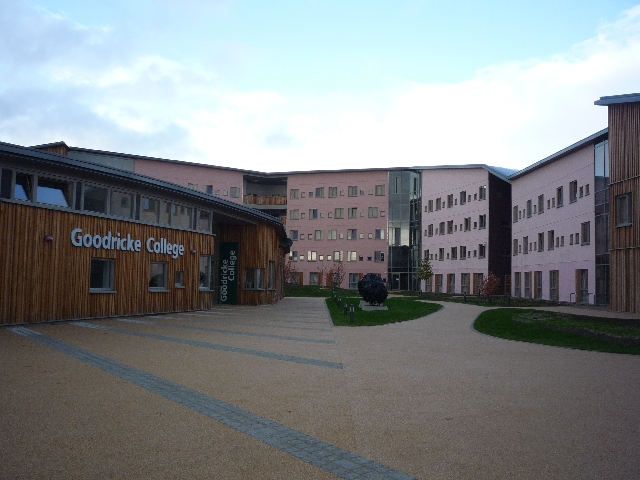 Goodricke College reception The first buildings to be completed on the new university campus known as Heslington East. Goodricke college is the first of the old colleges to move from the west campus. Its old buildings are now split between James and Vanbrugh.